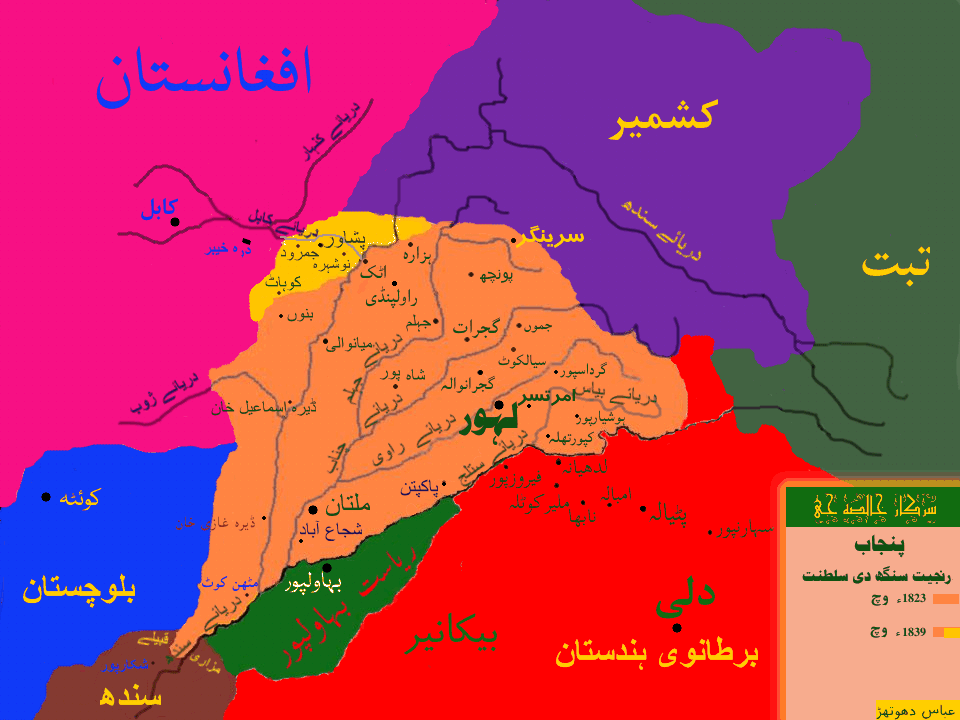 A map of Punjab under Ranjit Singh in Punjabi shahmukhi.